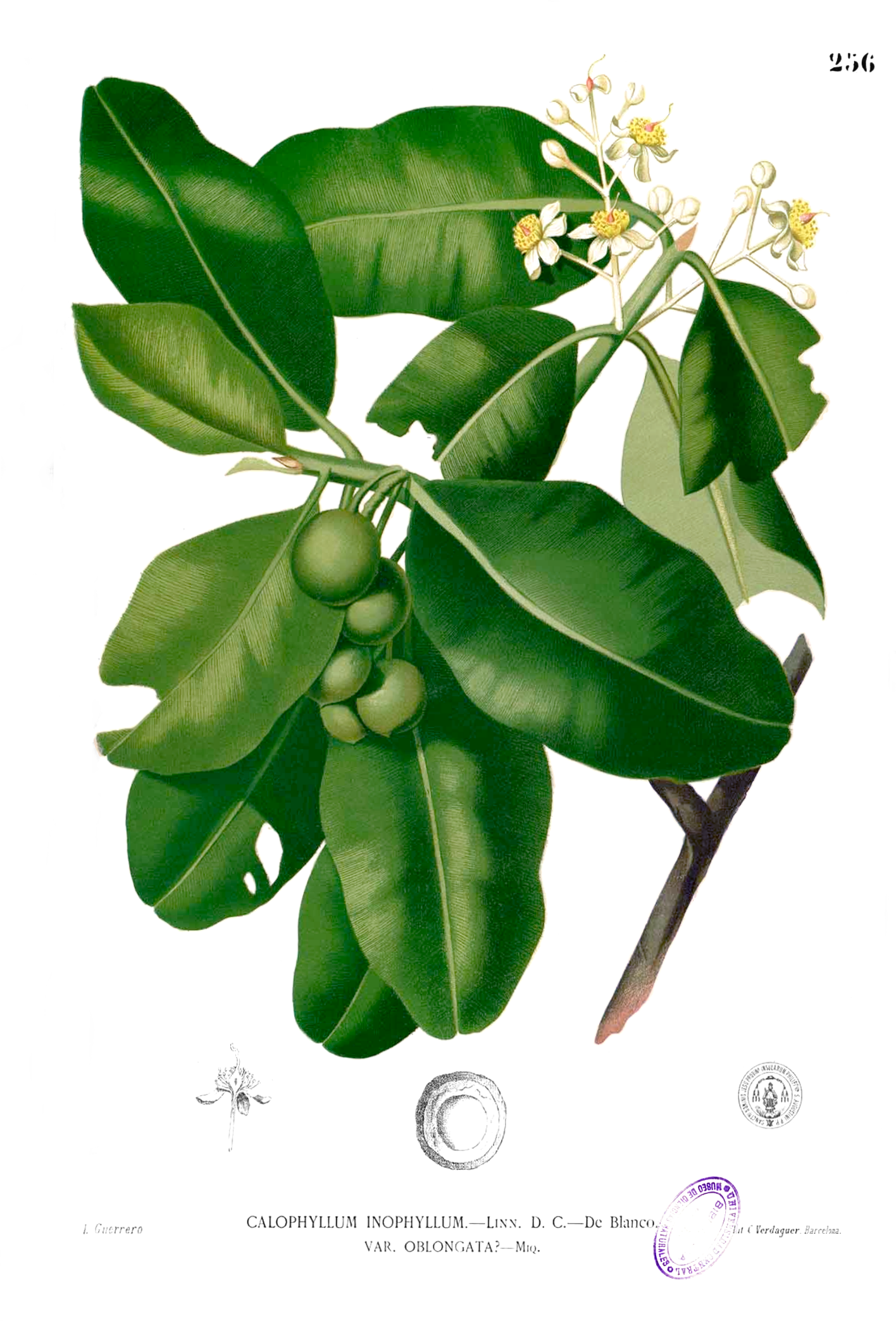 Plate from book